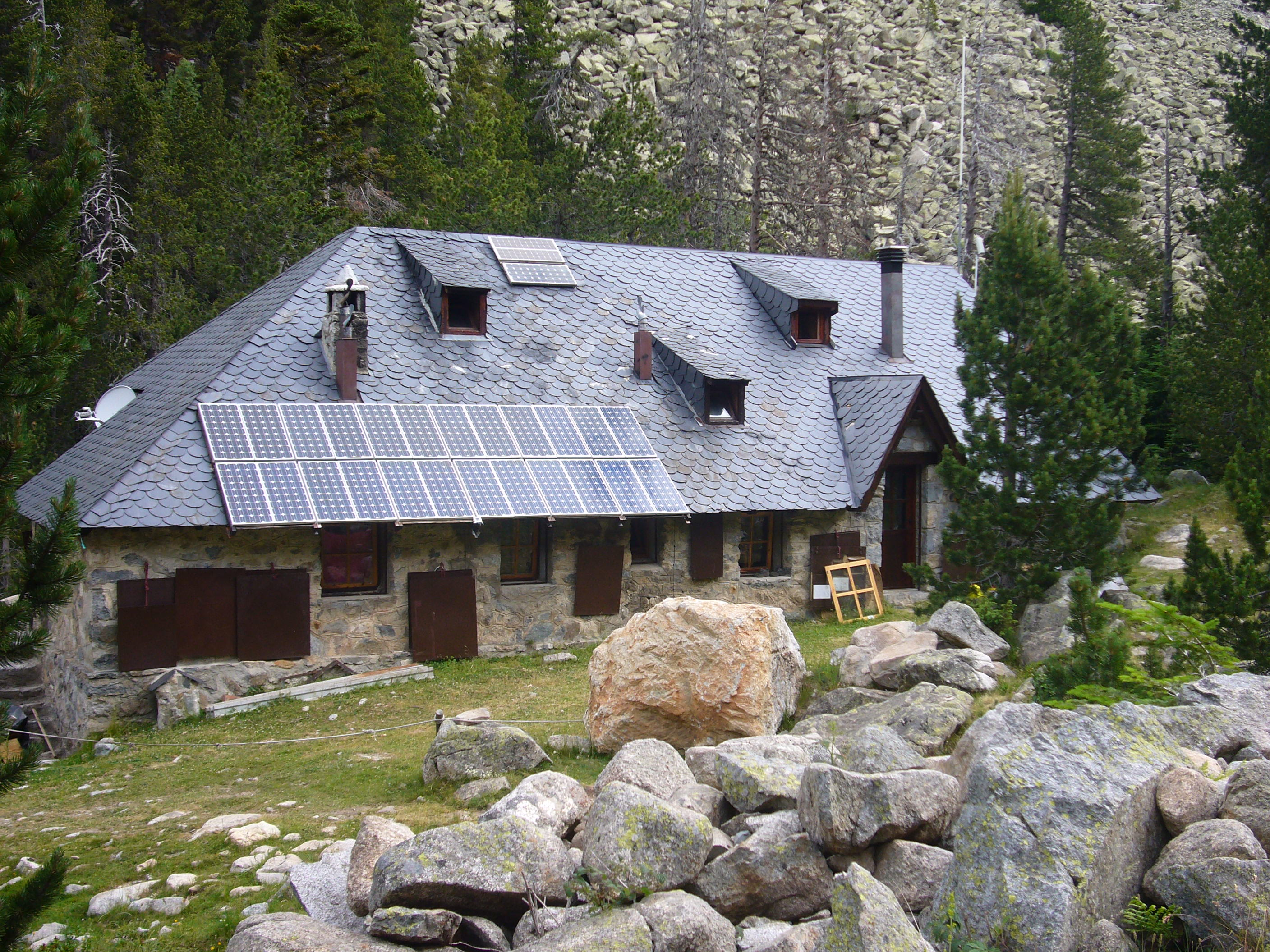 Estany Llong refuge, la Vall de Boí, Alta Ribagorça, Catalonia